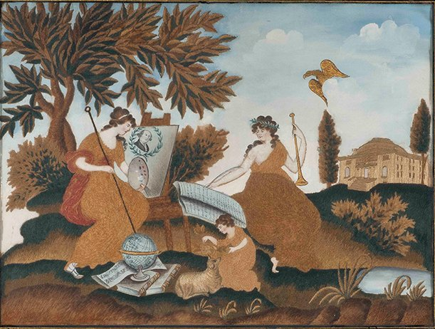 Calliope and Clio, silk needlework and tempera on linen, 1810-1813, Winterthur Museum, Garden & Library. Needlework by Sarah Skinner Ward, design and painting by Samuel Folwell of Philadelphia, Pennsylvania.